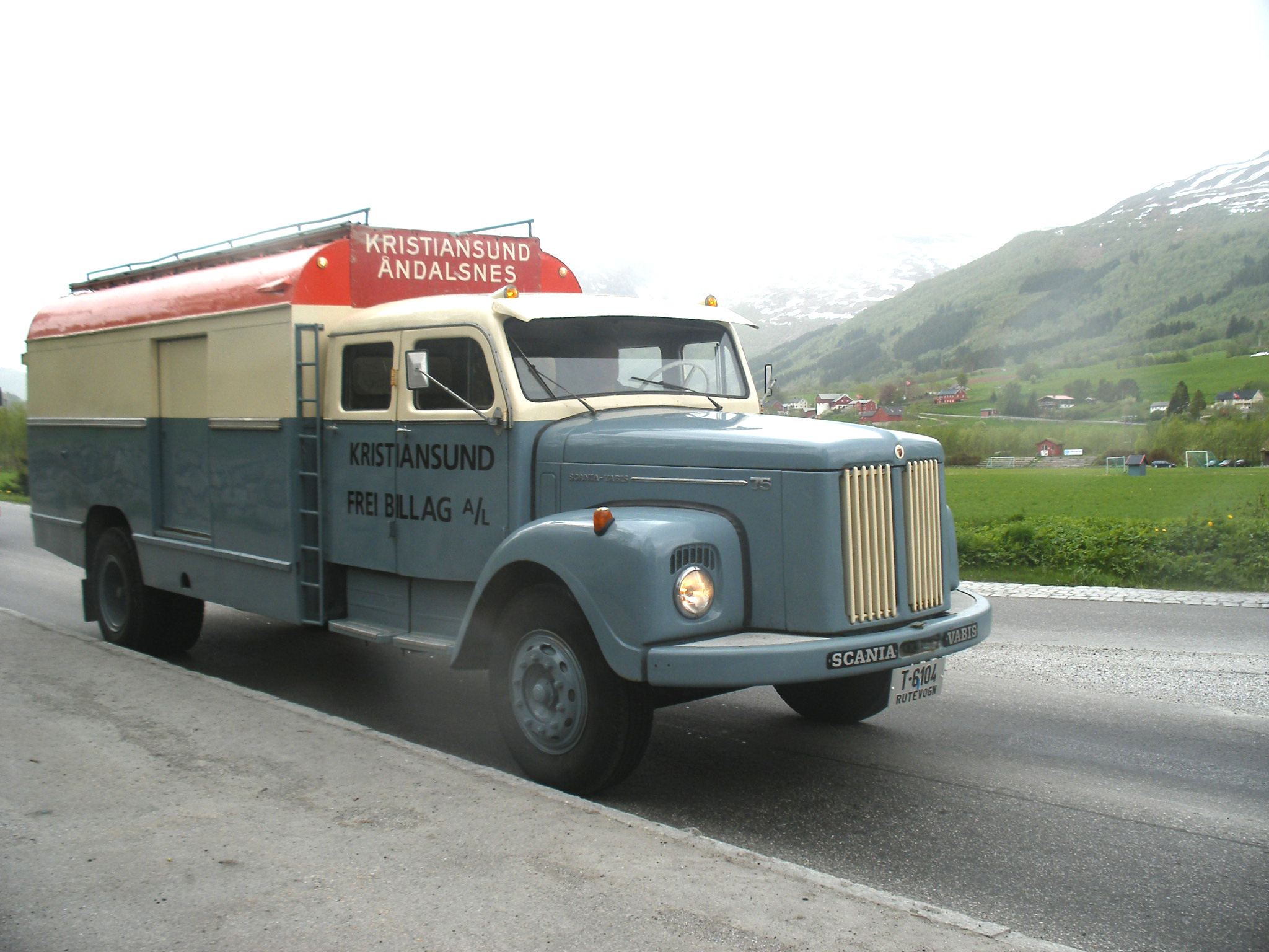 Old bus from Norway. Scania Vabis 75. Kristiansund og Frei Billag.